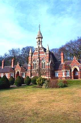 Hemsworth, Archbishop Holgate Almshouses, with the Chapel of The Holy Cross. These Almshouses occupy a position to the north of Robin Lane, Hemsworth, half way between Hemsworth and South Hiendley.